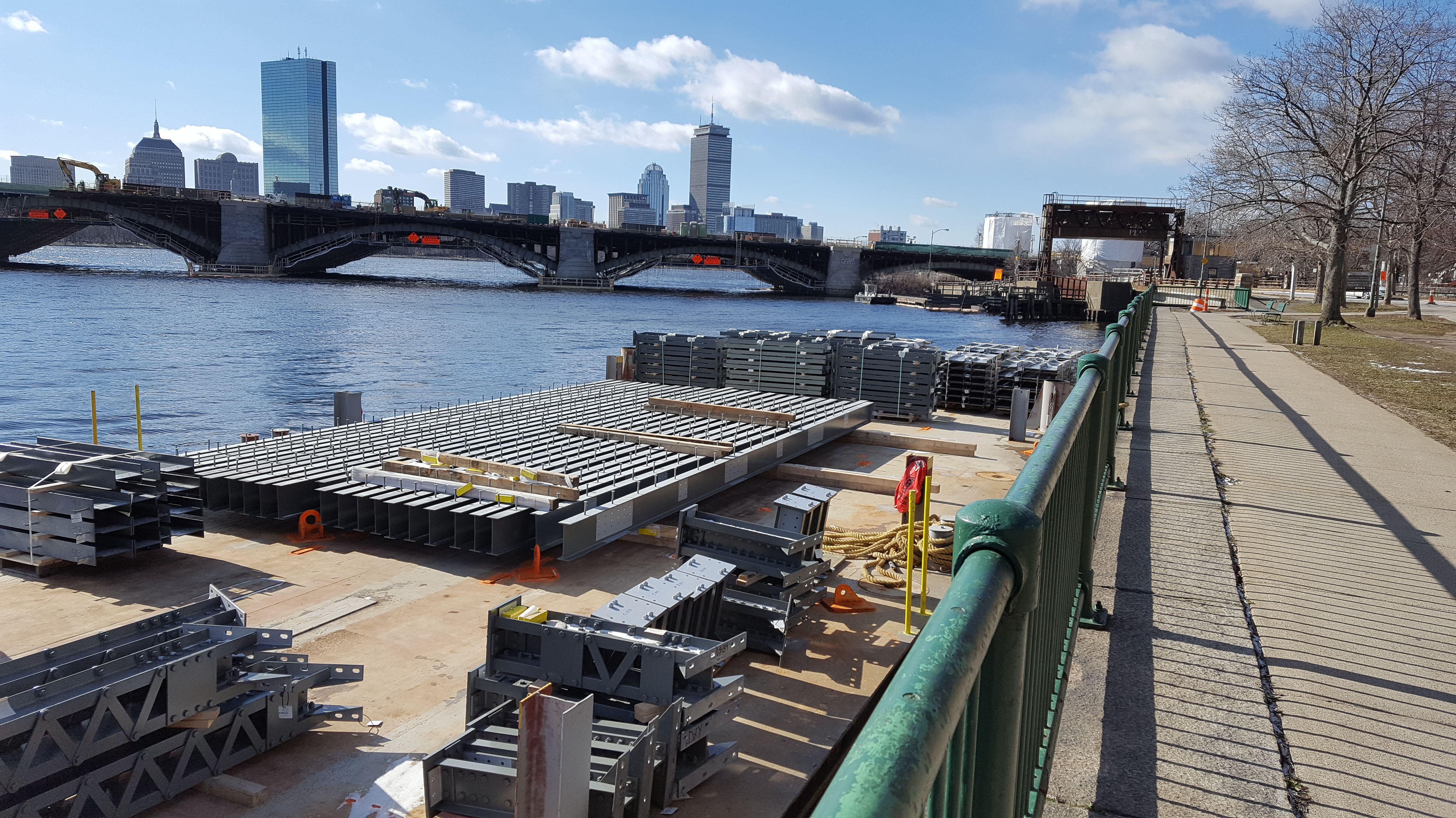 Structural Elements for Longfellow Bridge reconstruction project on a barge in Cambridge, Massachusetts waiting to be installed.